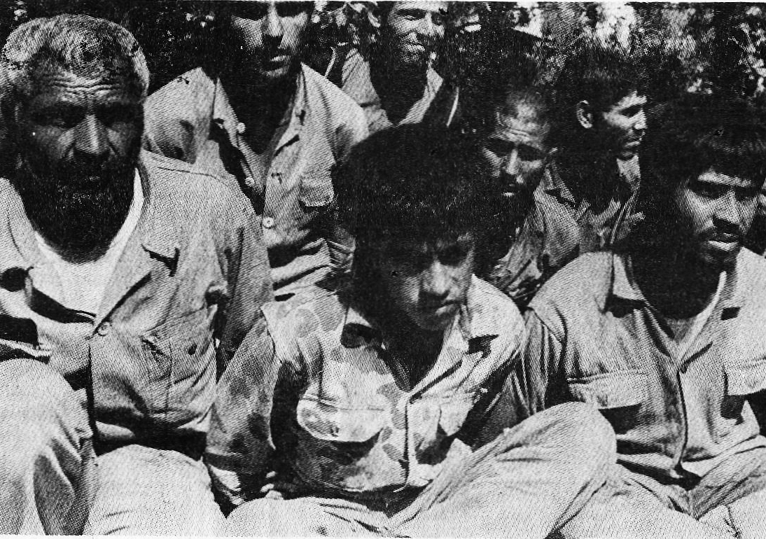 A group of Iranian prisoners (POWs) of war captured by Iraqi troops in the northern sector in an Iraqi offensive last week (between 9th and 14th of June 1988) during which the Iranians were diven out of five strategic mounts.